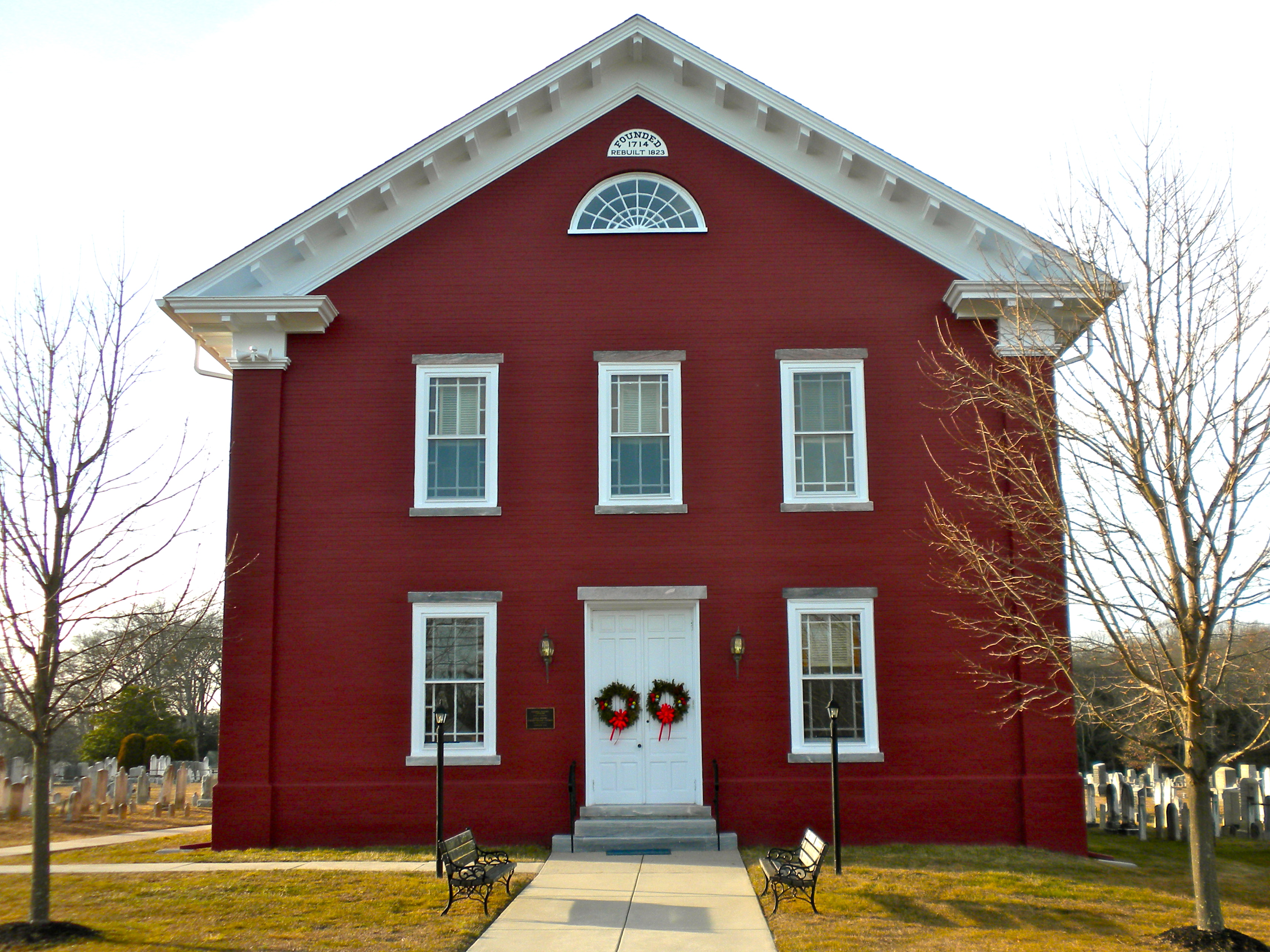 Cold Spring Presbyterian Church, founded 1714, rebuilt 1823, in Cape May County, Lower Township, New Jersey. On the NRHP. 780 Seashore Rd.